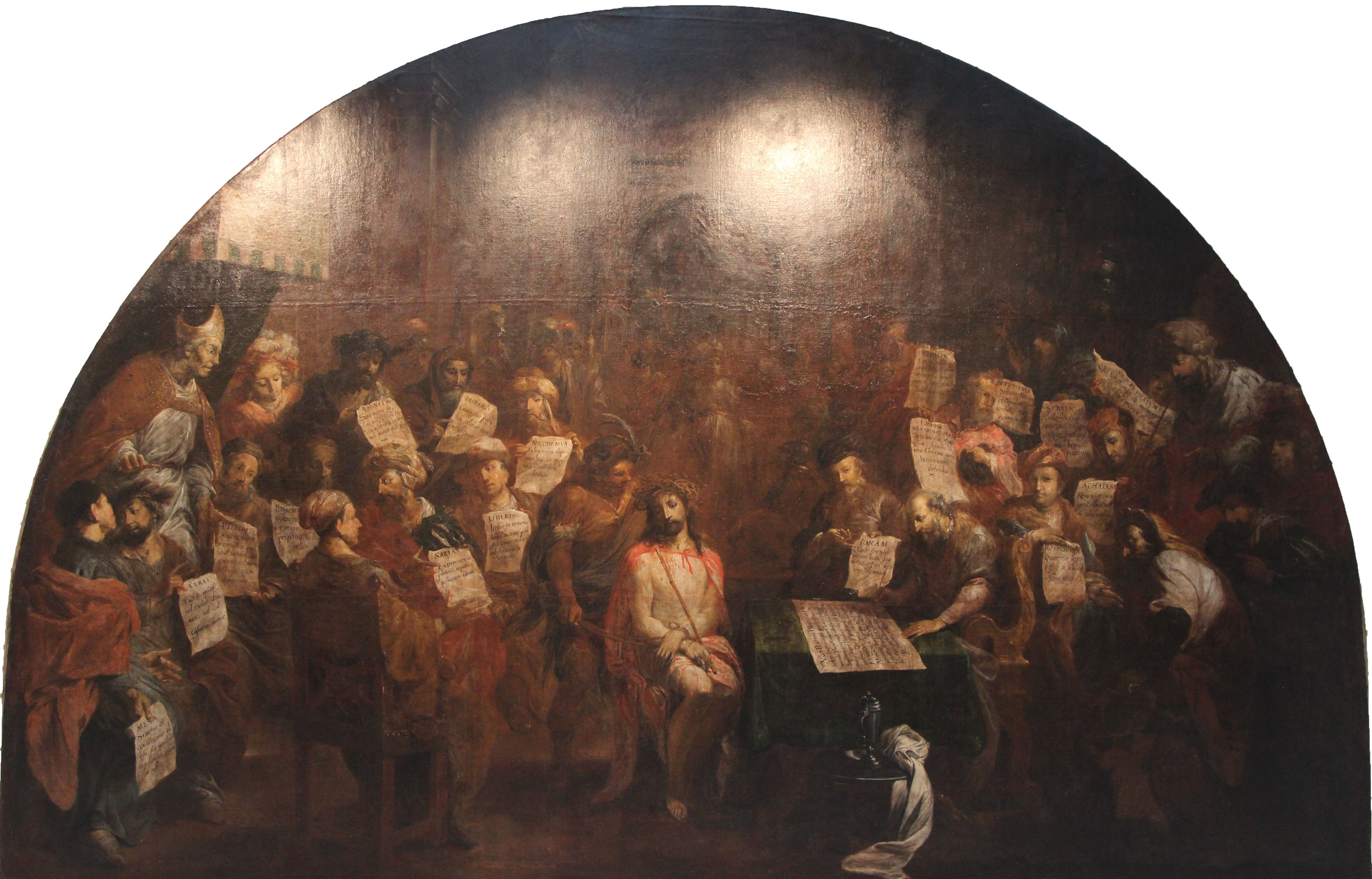 Michael Willman The Trial of Christ (ca 1678) from church of the Assumption of the Blessed Virgin Mary in Henryków.